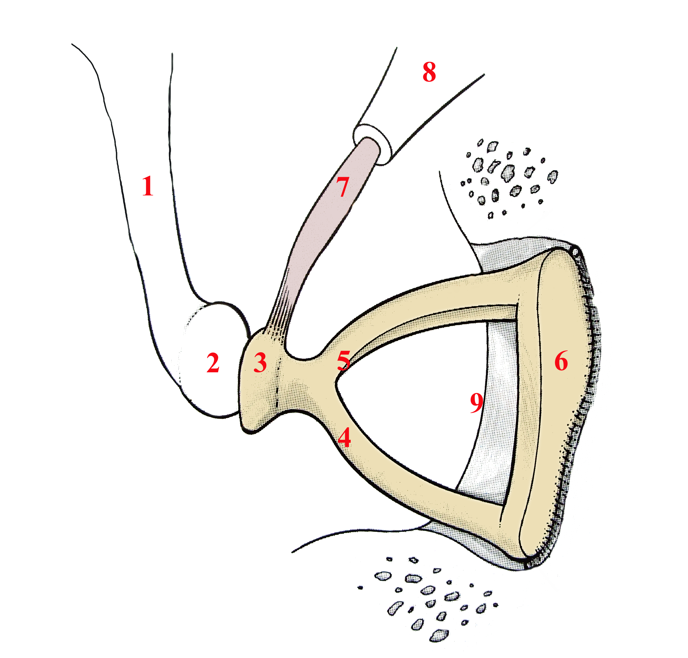 Stapes : 1)long crus of incus 2)lenticular process 3)head of stapes 4)anterior crus 5)posterior crus 6)base 7)Stapedius muscle 8)pyramidal eminence 9)fenestra ovalis